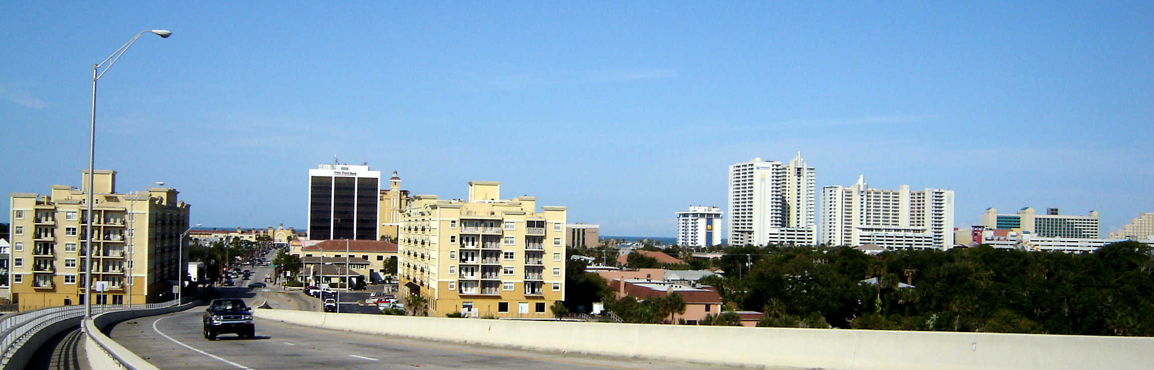 Daytona Beach Skyline, view from above Towers St.